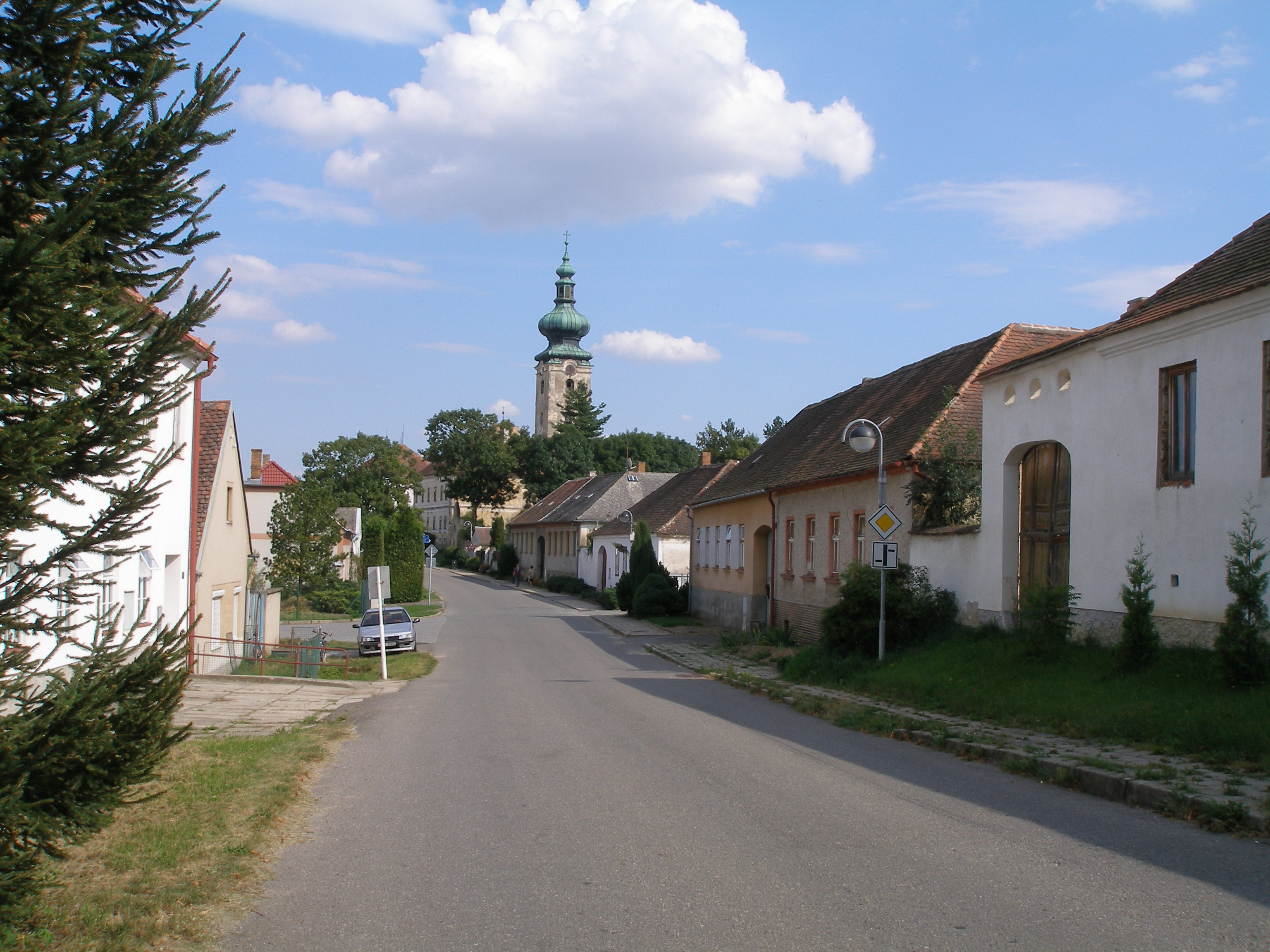 Dešná (Jindřichův Hradec district) - the main street, the view to the central part of the village from the West